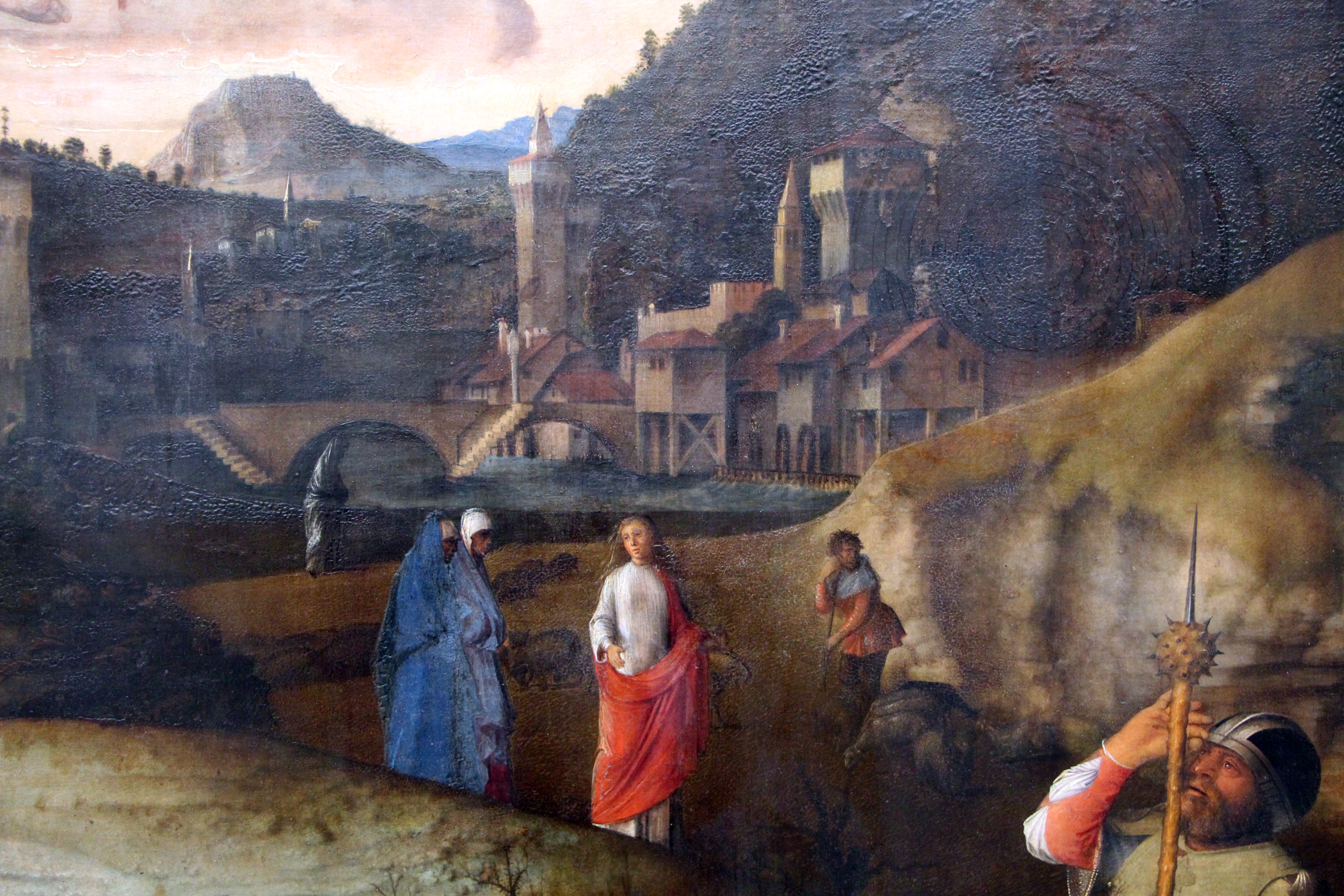 Italian Renaissance paintings in the Gemäldegalerie, Berlin